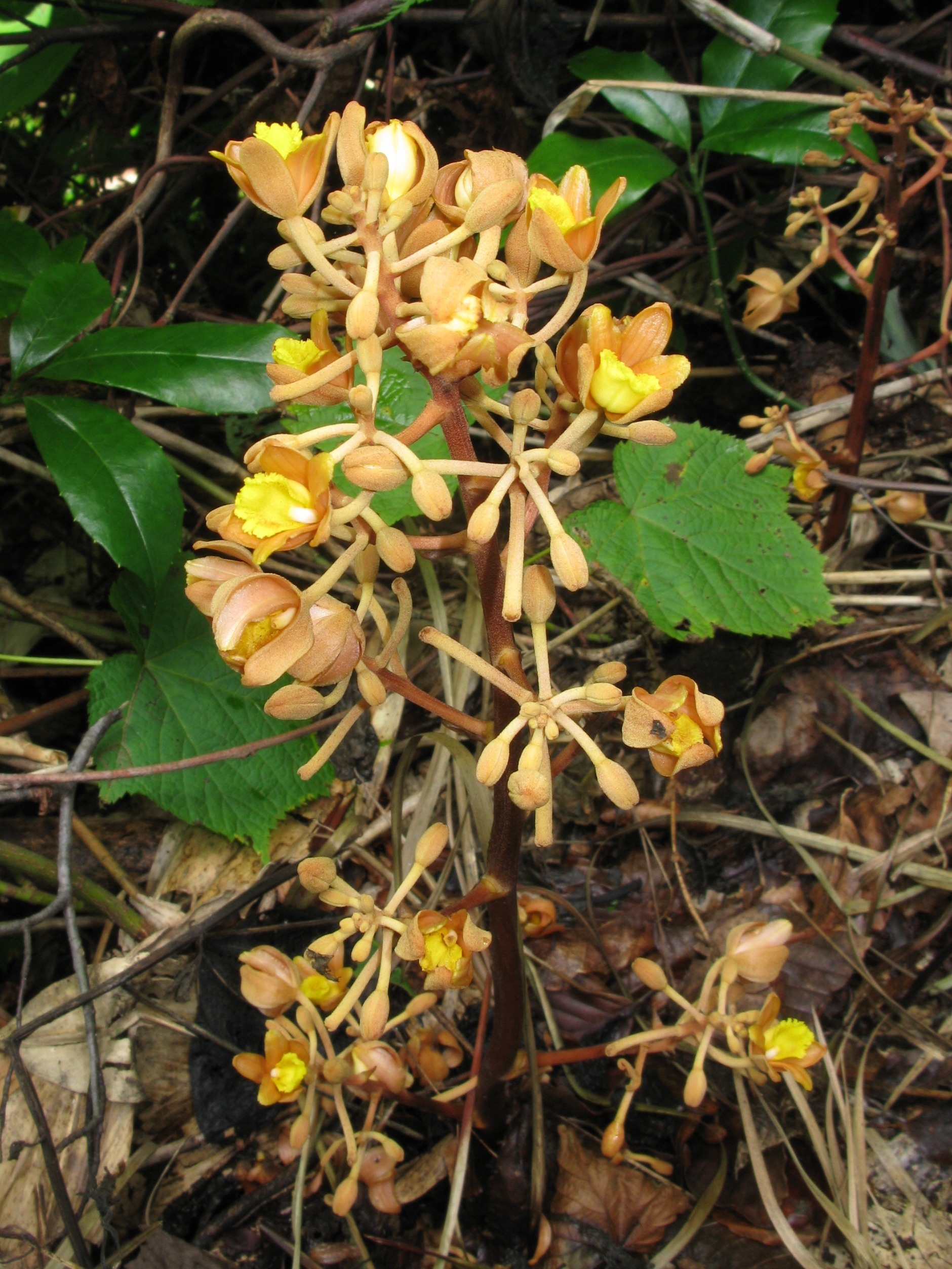 Cyrtosia septentrionalis, Mount Mikagura, Niigata pref., Japan